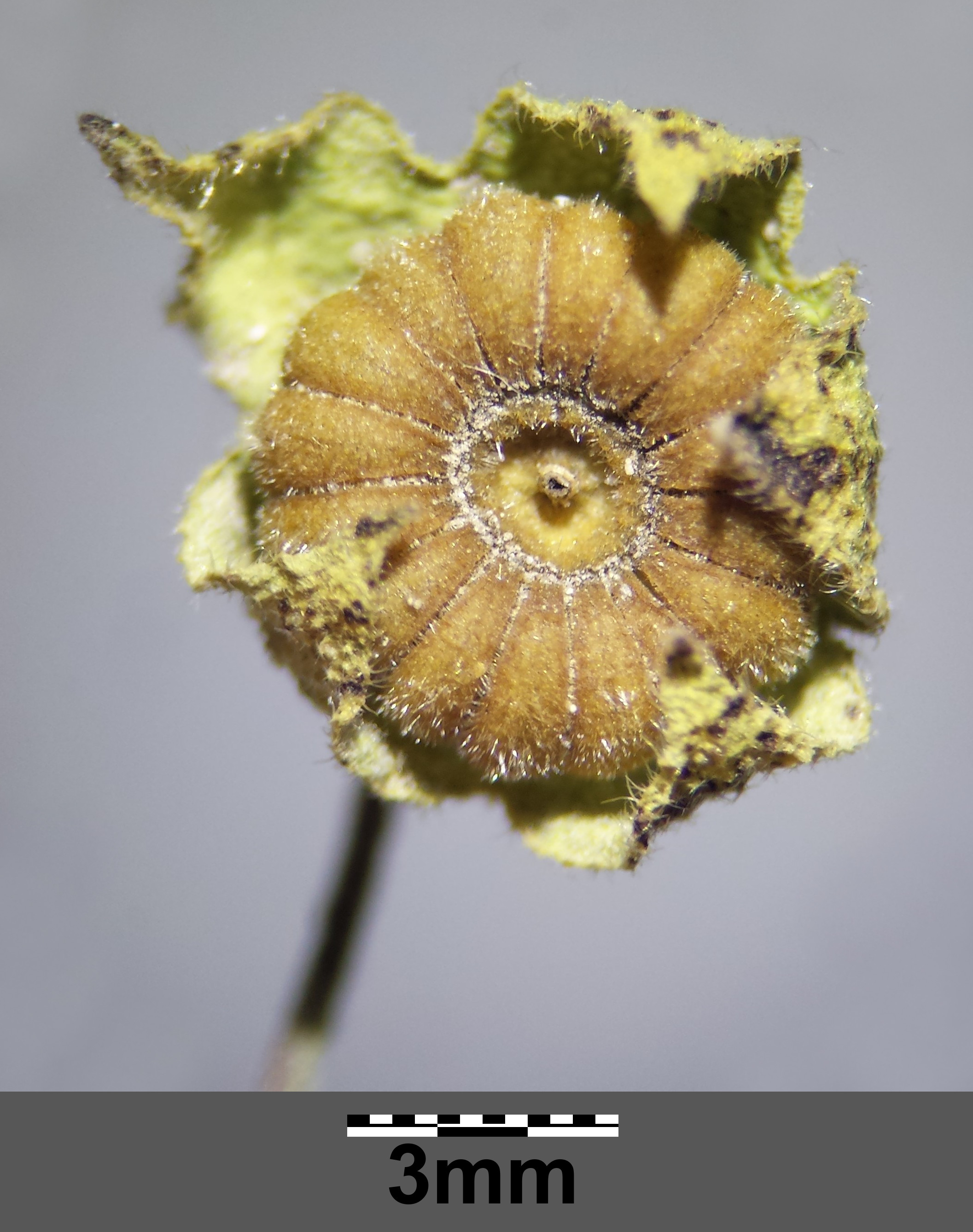 Fruit consisting of fruitlets Taxonym: Malva neglecta (ss Fischer et al. EfÖLS 2008 ISBN 978-3-85474-187-9) Location: Wartberg near Ulrichskirchen, district Mistelbach, Lower Austria - ca. 240 m a.s.l. (leg.: 2015-11-08) Habitat: field